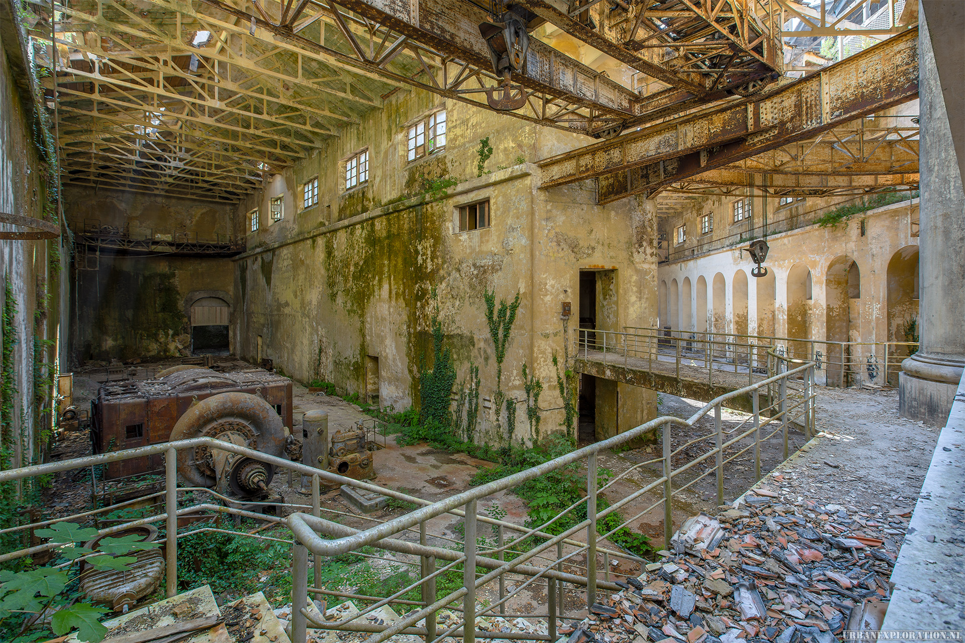 Abandoned Hydro Powerplant - Italy